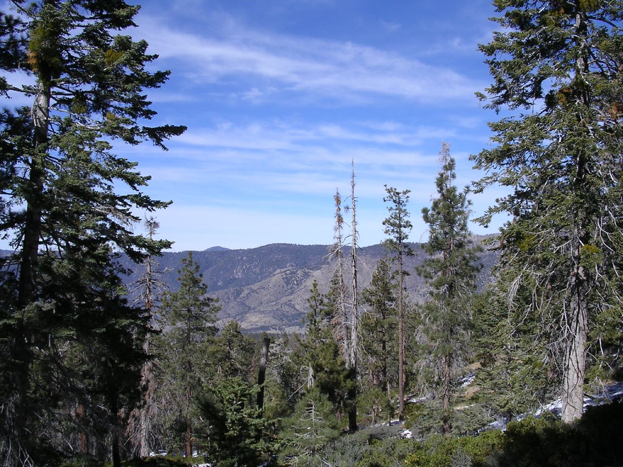 Looking north over the San Gorgonio Wilderness of the San Bernardino National Forest, in the San Bernardino Mountains, Southern California. Mixed Abies concolor - Pinus jeffreyi forest.